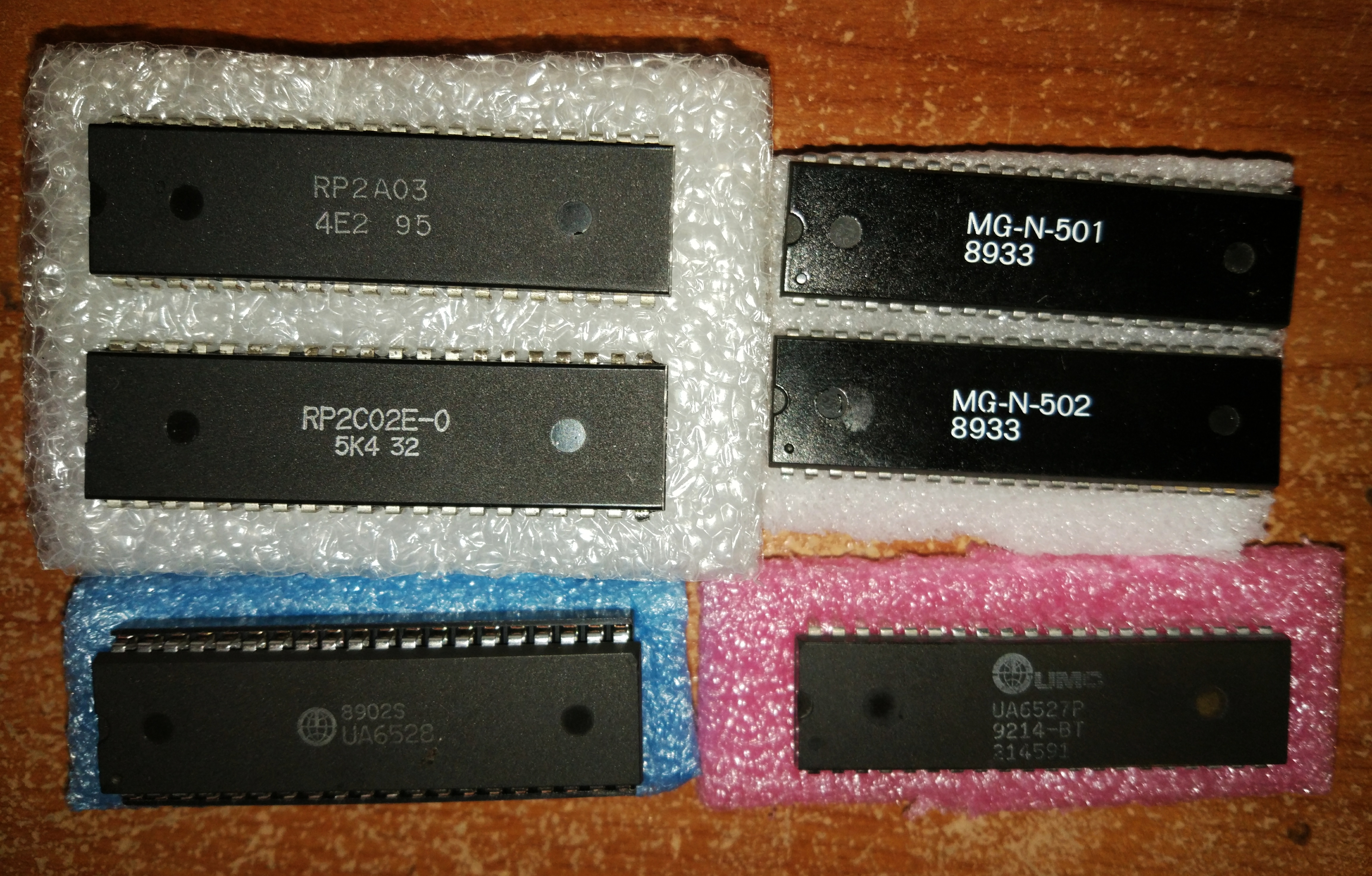 Famicom / NES CPU, PPU and its clones